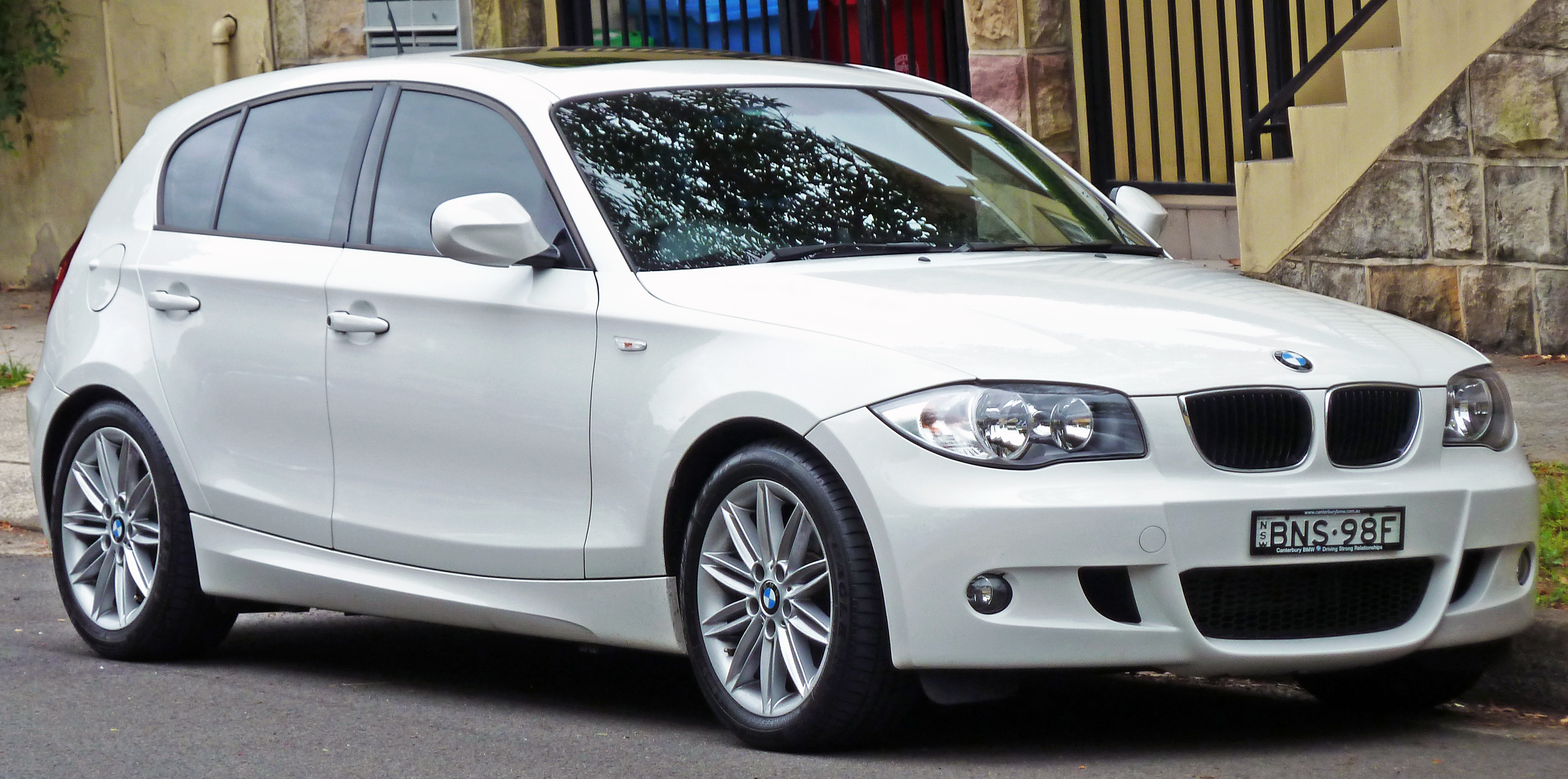 2010 BMW 118d (E87 MY10) 5-door hatchback. Photographed in Rose Bay, New South Wales, Australia.